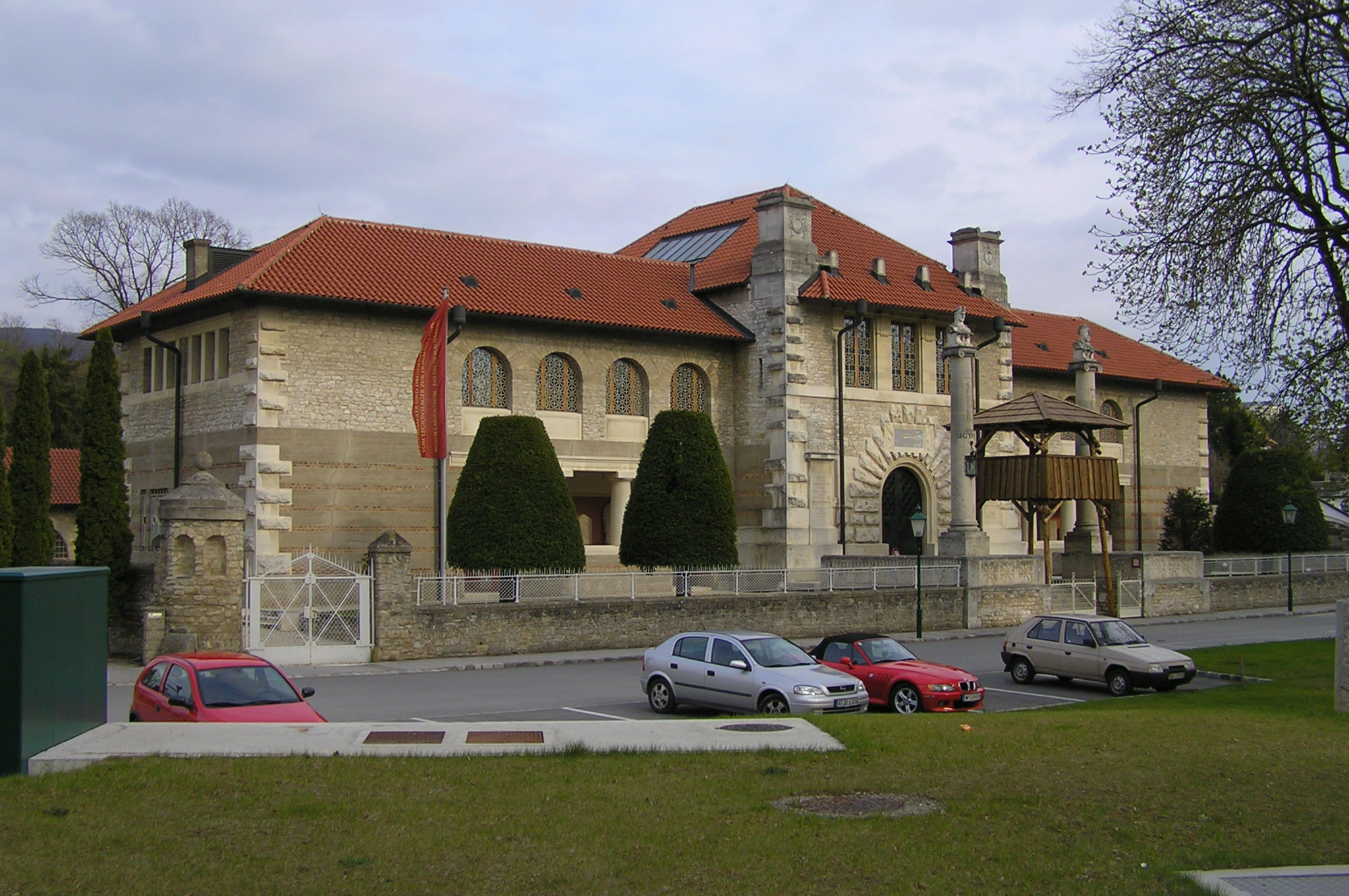 Museum Carnuntinum, showing the excavations of the Carnuntum area. Located in Bad Deutsch-Altenburg Museum Carnuntinum Native nameArchäologisches Museum CarnuntinumLocationBad Deutsch-Altenburg Badgasse 40-462405 Bad Deutsch-Altenburg, Lower Austria AustriaCoordinates16° 54′ 12.67″ N, 48° 08′ 23.6″ E Established1904Authority control : Q1954415 VIAF: 121582002 ISNI: 0000 0001 0939 995X LCCN: n84189837 GND: 2058515-9 NKC: xx0201681 WorldCat institution QS:P195,Q1954415